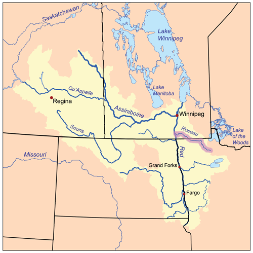 This is a map of the Red River of the North drainage basin, with the Roseau River highlighted. I, Karl Musser, created it based on USGS and Digital Chart of the World data.